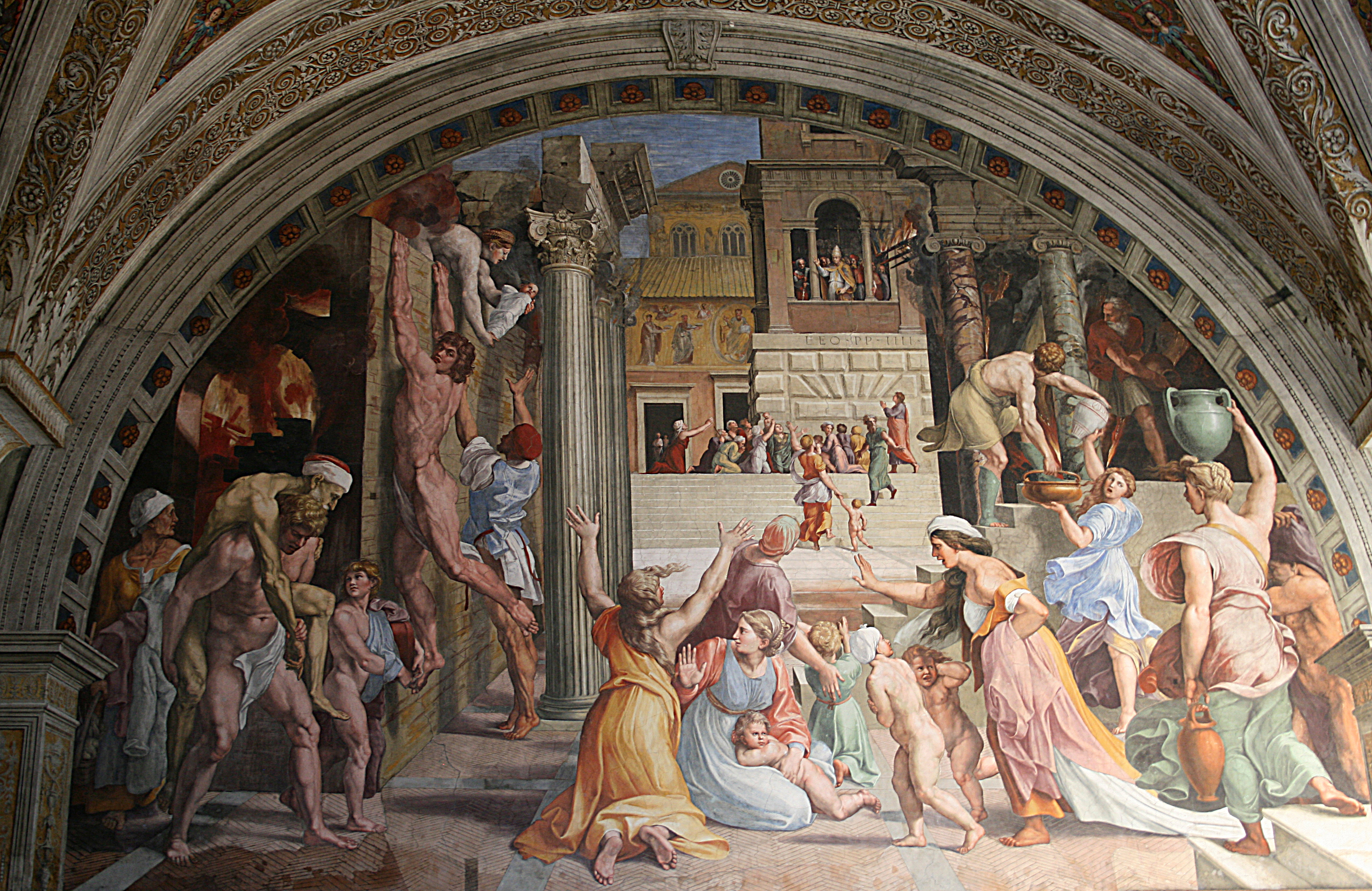 Monumental fresco designed by Raphael but made probably by his followers Giulio Romano and Giovan Francesco Penni, for Vatican Palace in Rome.